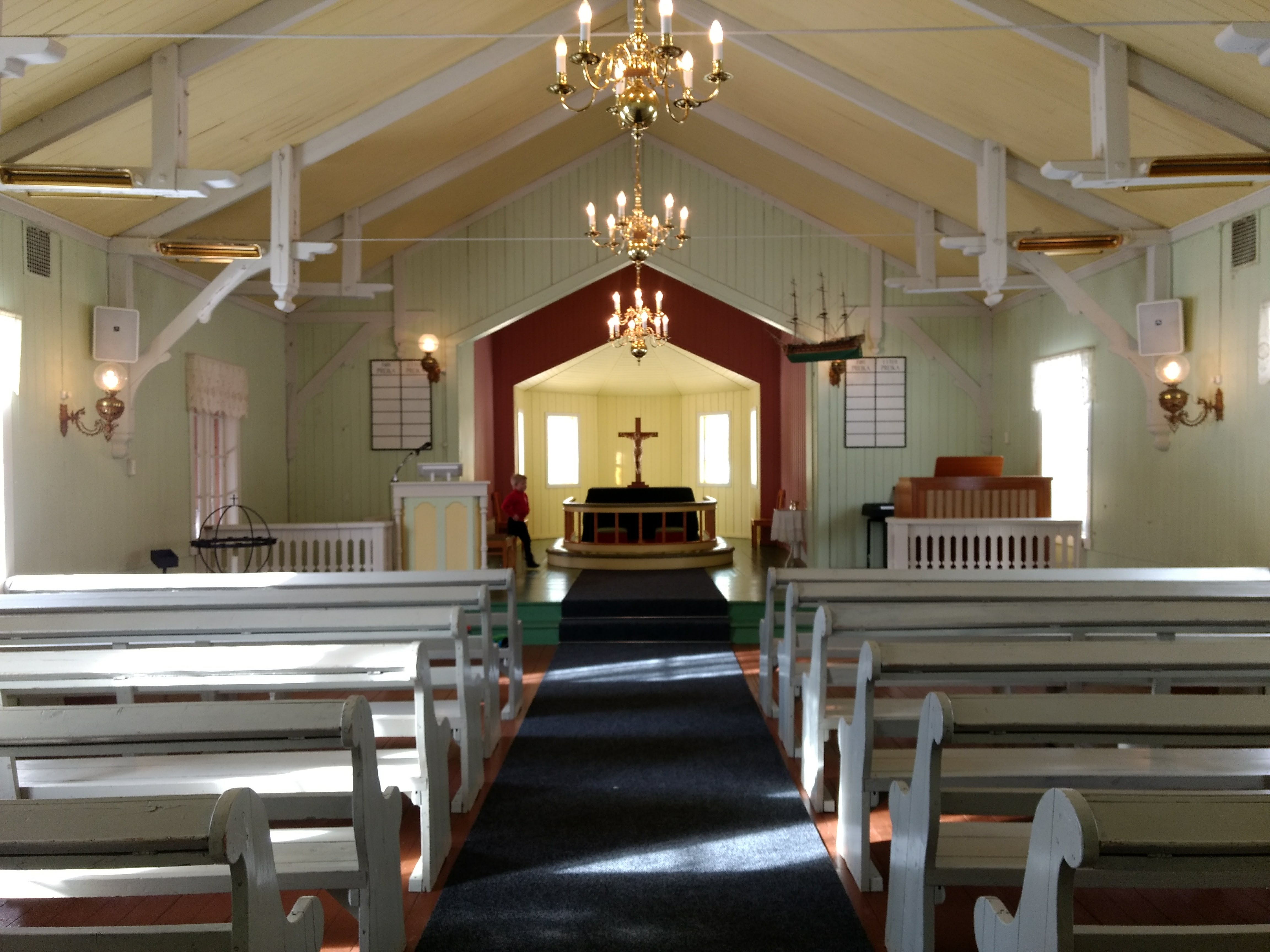 Main room Mjelde chapell, Tromsø